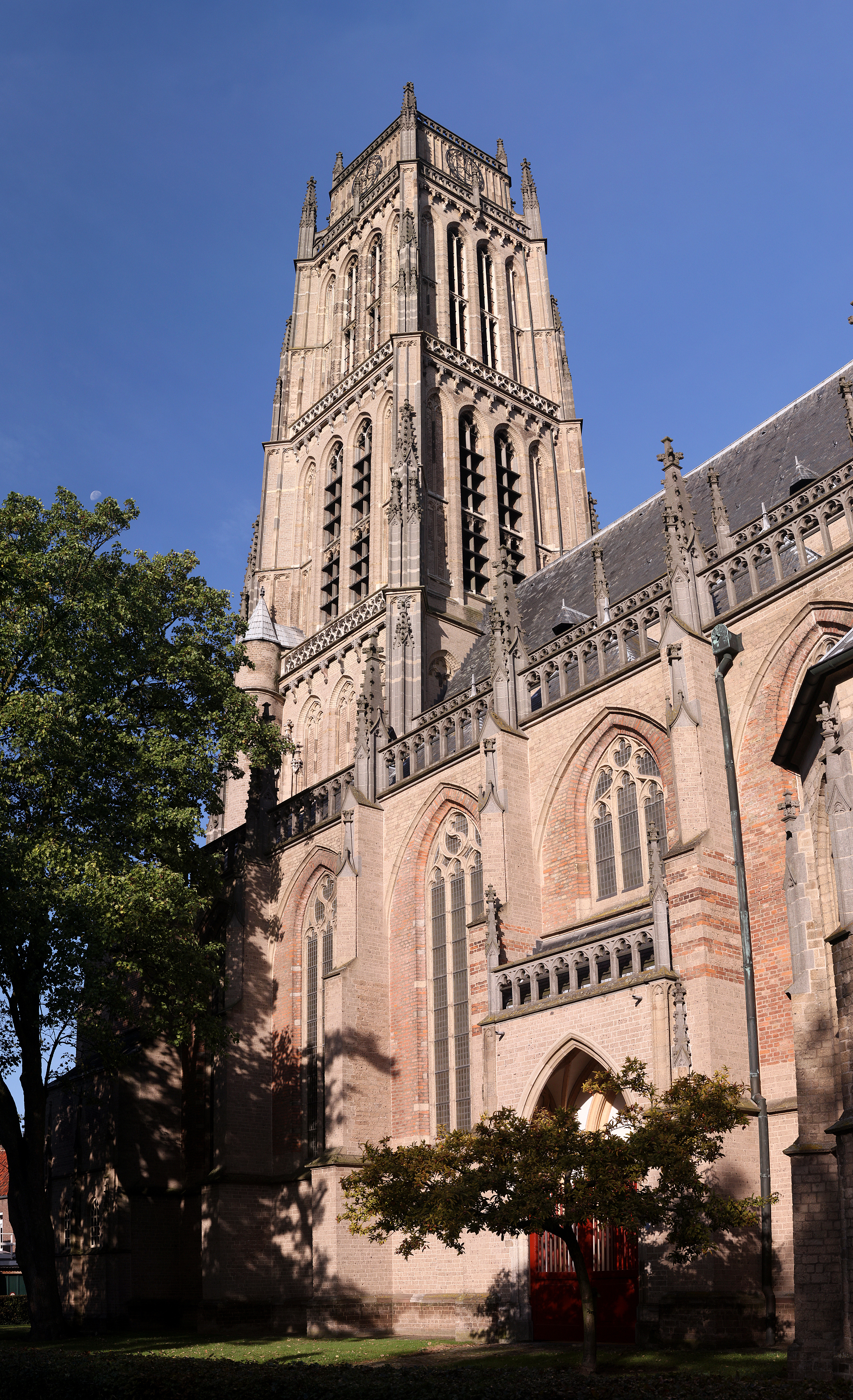 The tower of the Saint Martin church in Zaltbommel, the Netherlands. A vertical panorama of 6x5 segments. (Cropped version)